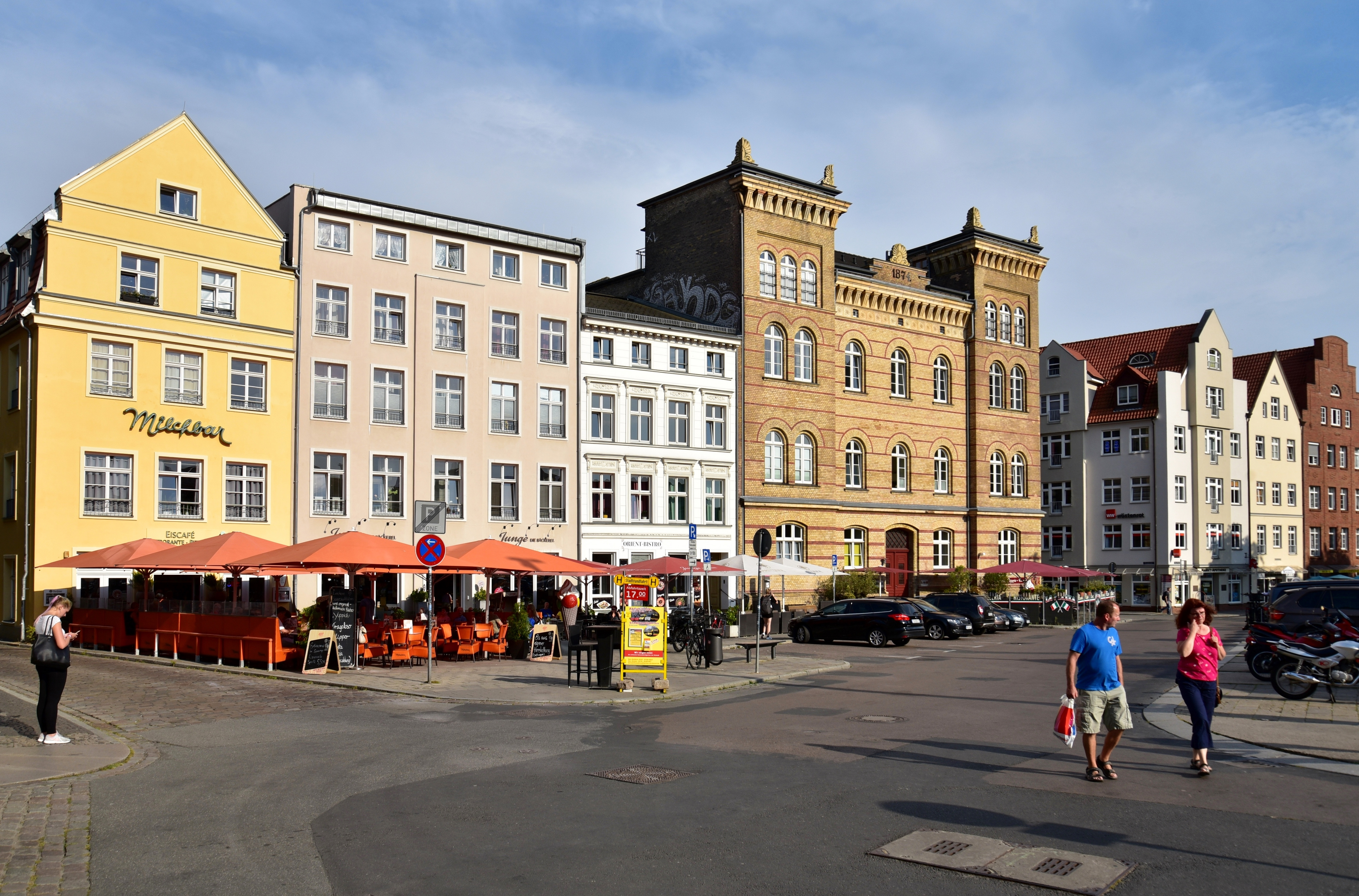 View of the Neuer Markt, Stralsund